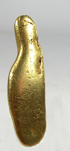 Gold Locality: Kuskokwim Mts, Yukon-Koyukuk Borough, Alaska, USA (Locality at ) For a gold nugget, this free-form , naturally water tumbled, and flattened specimen is extremely aesthetic. It look slike liquid gold, frozen in mid-spill! Its sculptural quality would make any art museum curator proud; and even as a serious collector of mineral specimens with euhedral crystals, this piece has captured me! Its weight is 2.16 ounces / 67 grams. One additional comment I’d like to make is that this piece closely resembles a piece in John Barlow’s collection 6.2 x 1.6 x 0.4 cm